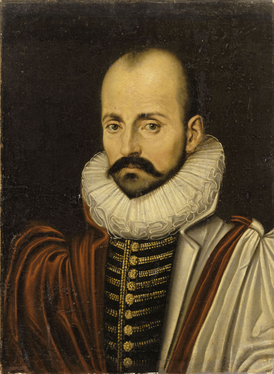 A portrait of Michel de Montaigne